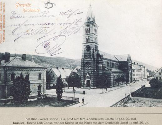 Kraslice , Kostel Božího Těla počátek 20 stol.